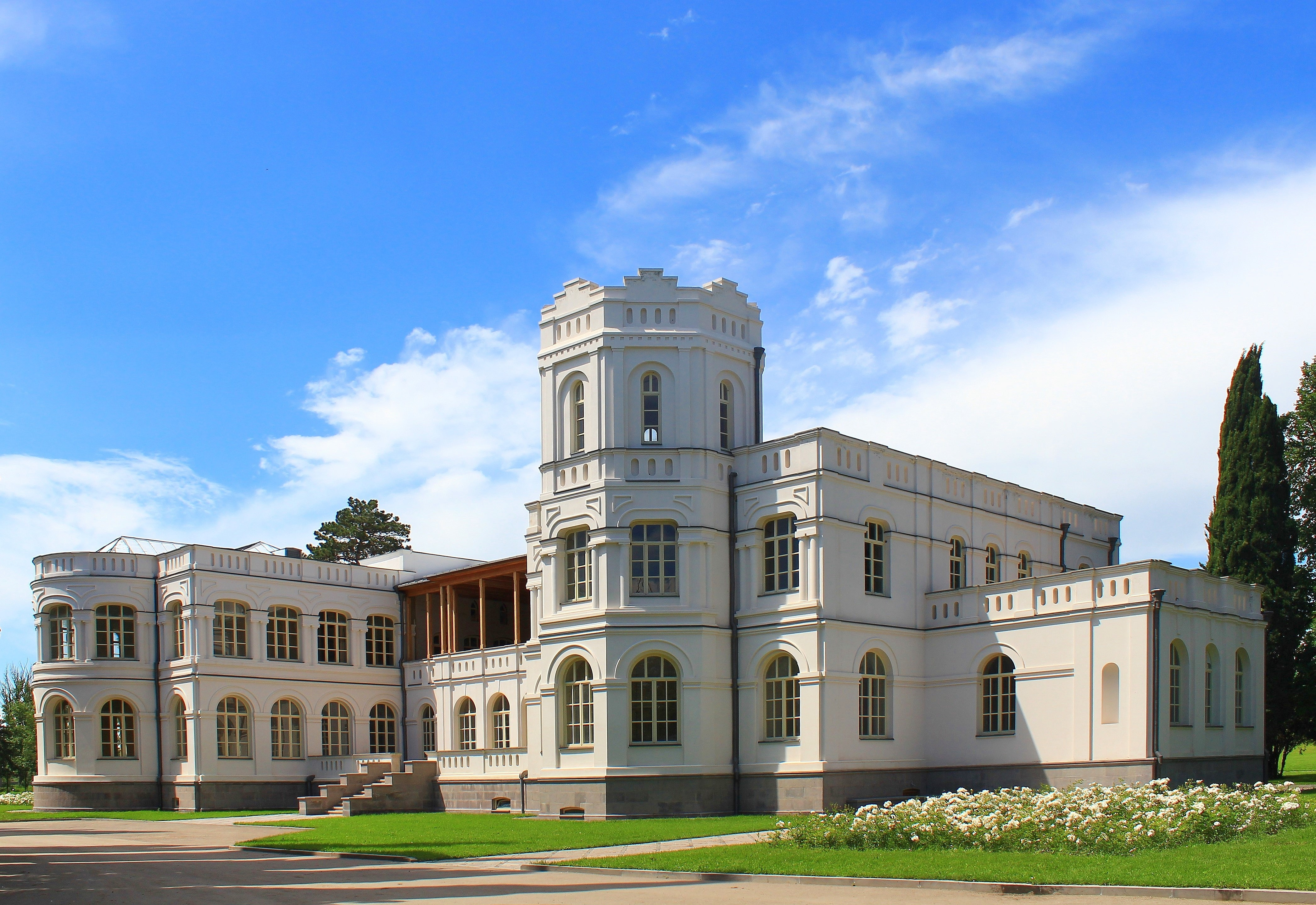 "Château Mukhrani", the Mukhranbatoni palace in Mukhrani village, built from 1873 to 1885 and restored in 2012.